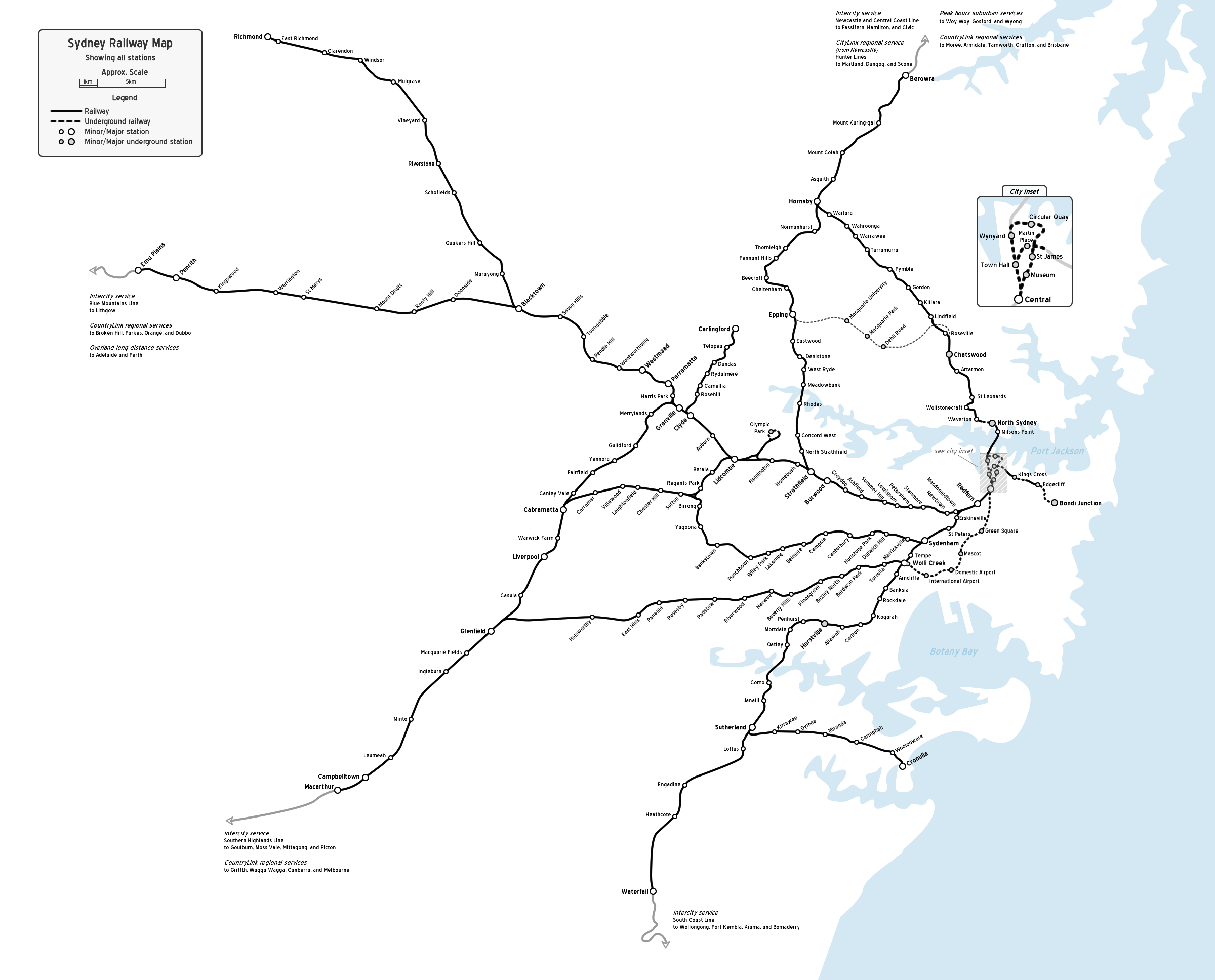 Map of the Sydney railway network, geographically accurate, to approximate scale. Shows all stations.